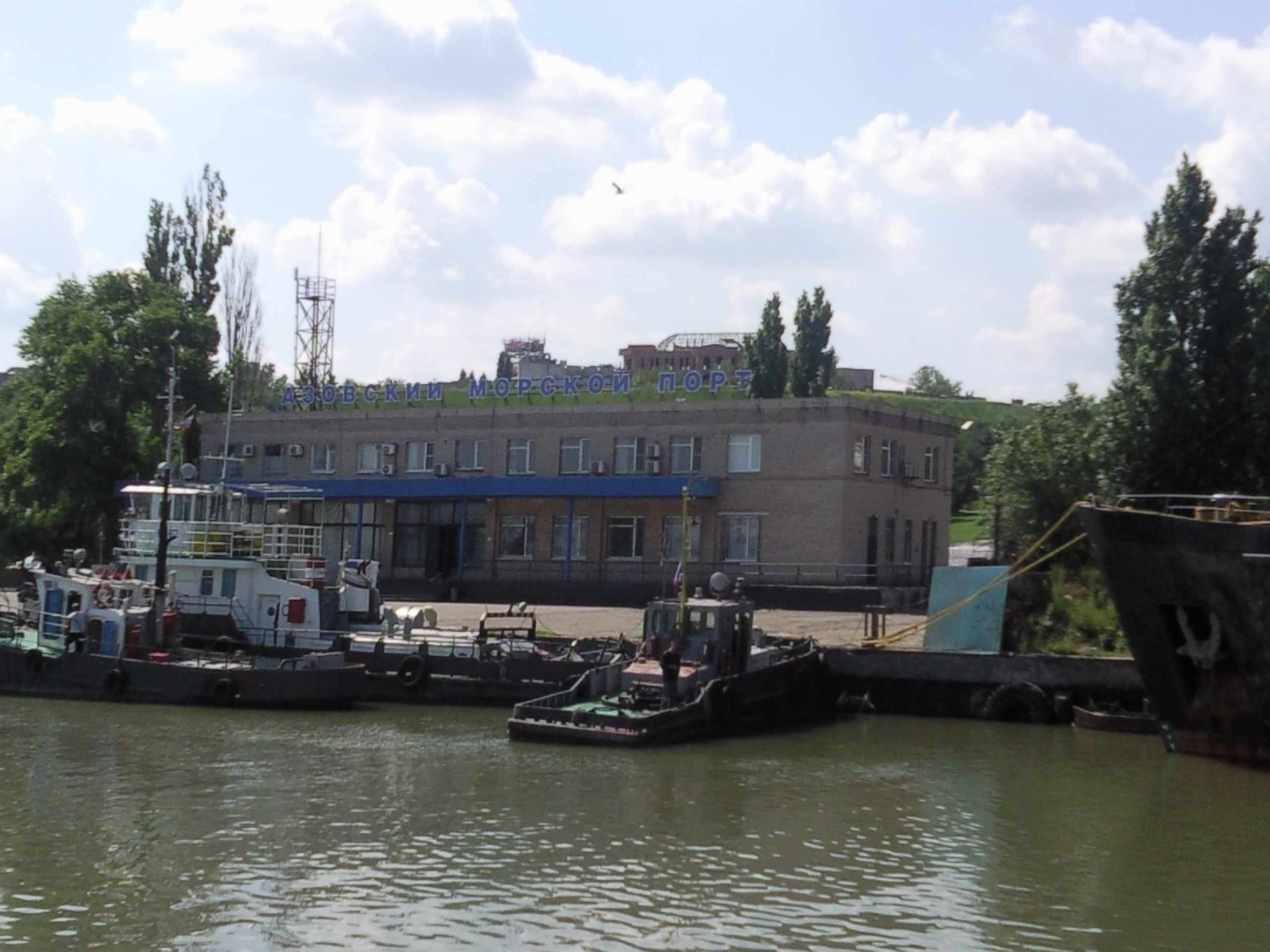 Sea port of Azov